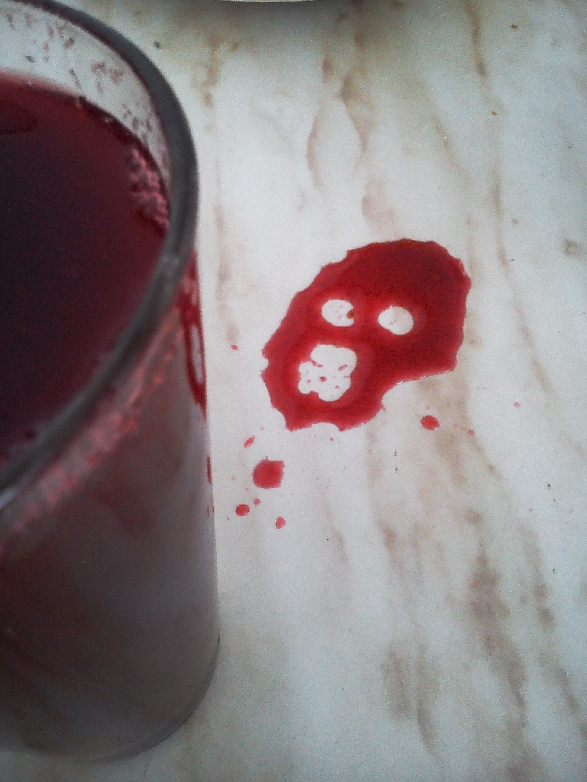 Home made juice of blackberries.